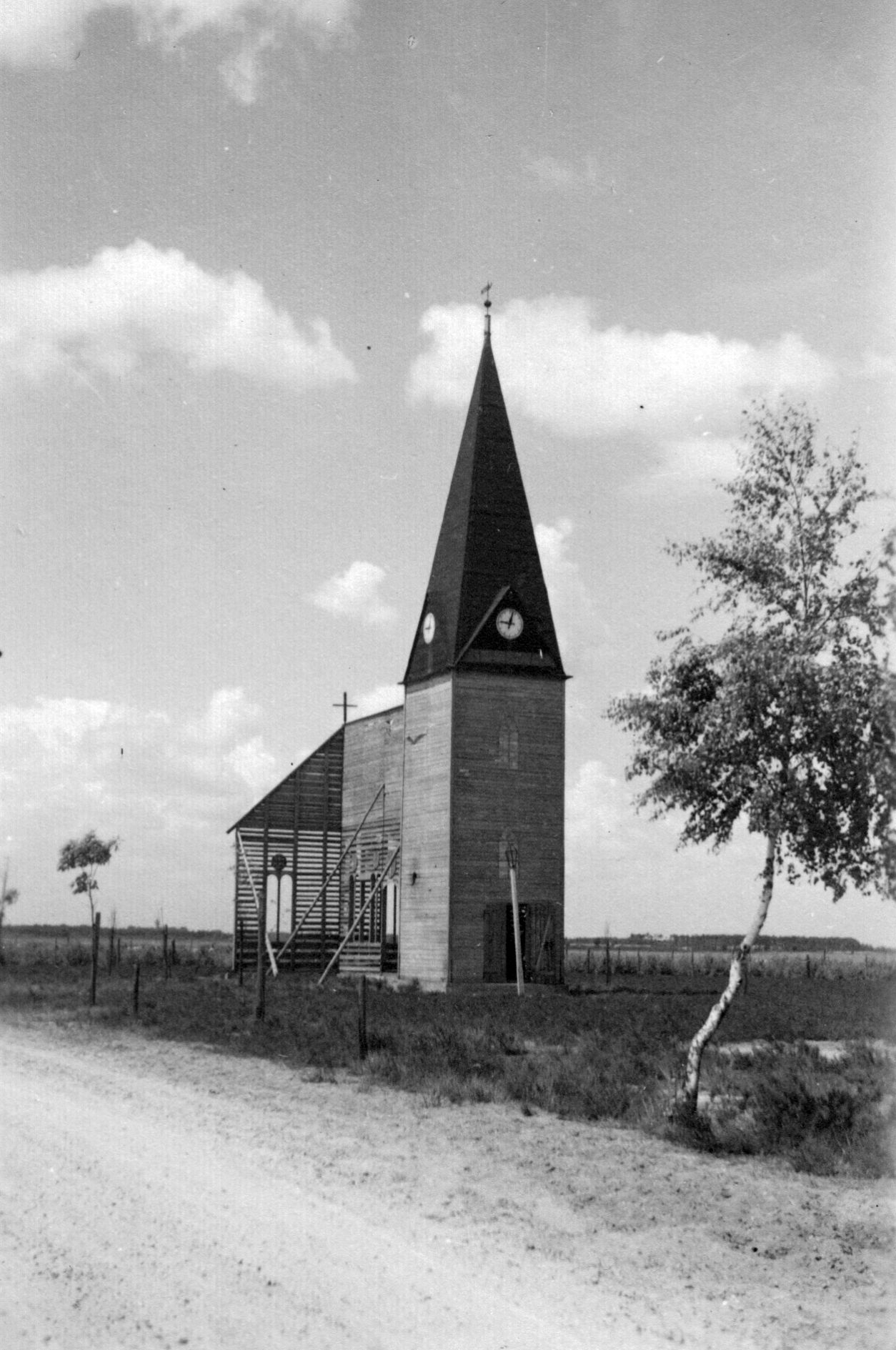 Military Training ground in Neuhammer an der Queis. Dummy church.